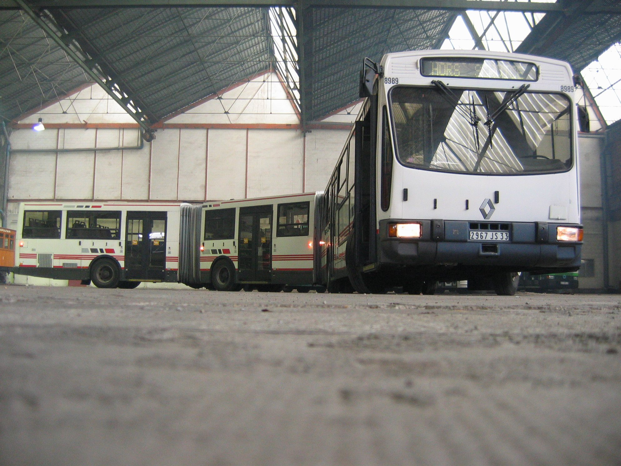 A Renault Mégabus (ex-n°8989 of the CGFTE, conserved by the AMTUIR) parked at the museum (Colombes, France) on March 6, 2008, during the move of the collection.